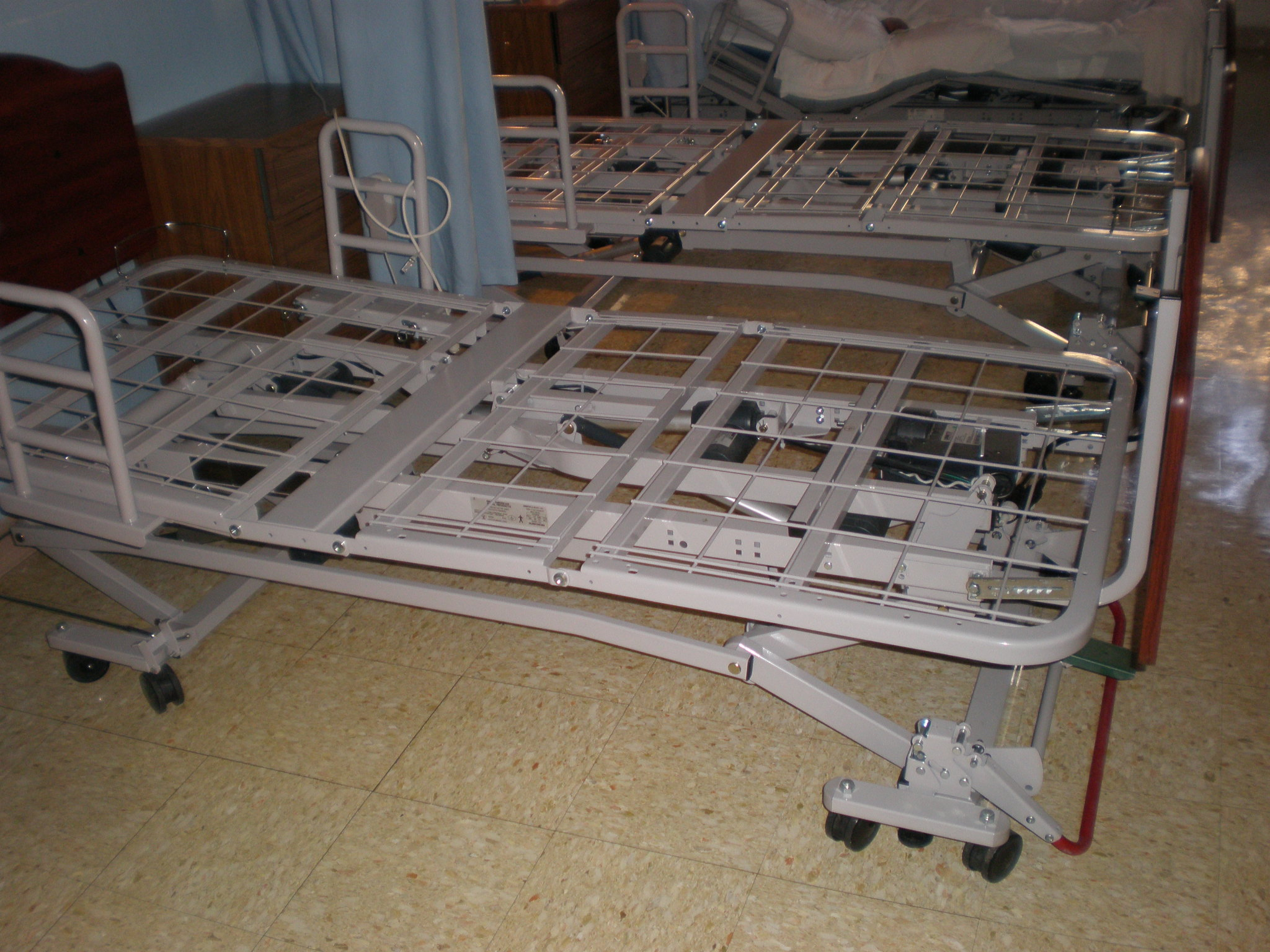 A pair of Linak hospital bed frames